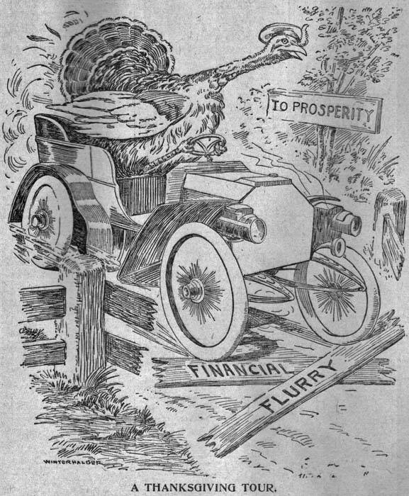 "A Thanksgiving Tour". 1907 editorial cartoon for Thanksgiving holiday from the Daily Picayune newspaper of New Orleans. A turkey is depicted driving an automobile through a fence labeled "Financial Flurry"; a road sign says "To Prosperity". Reference is to the Panic of 1907, with hopes that prosperity is ahead.